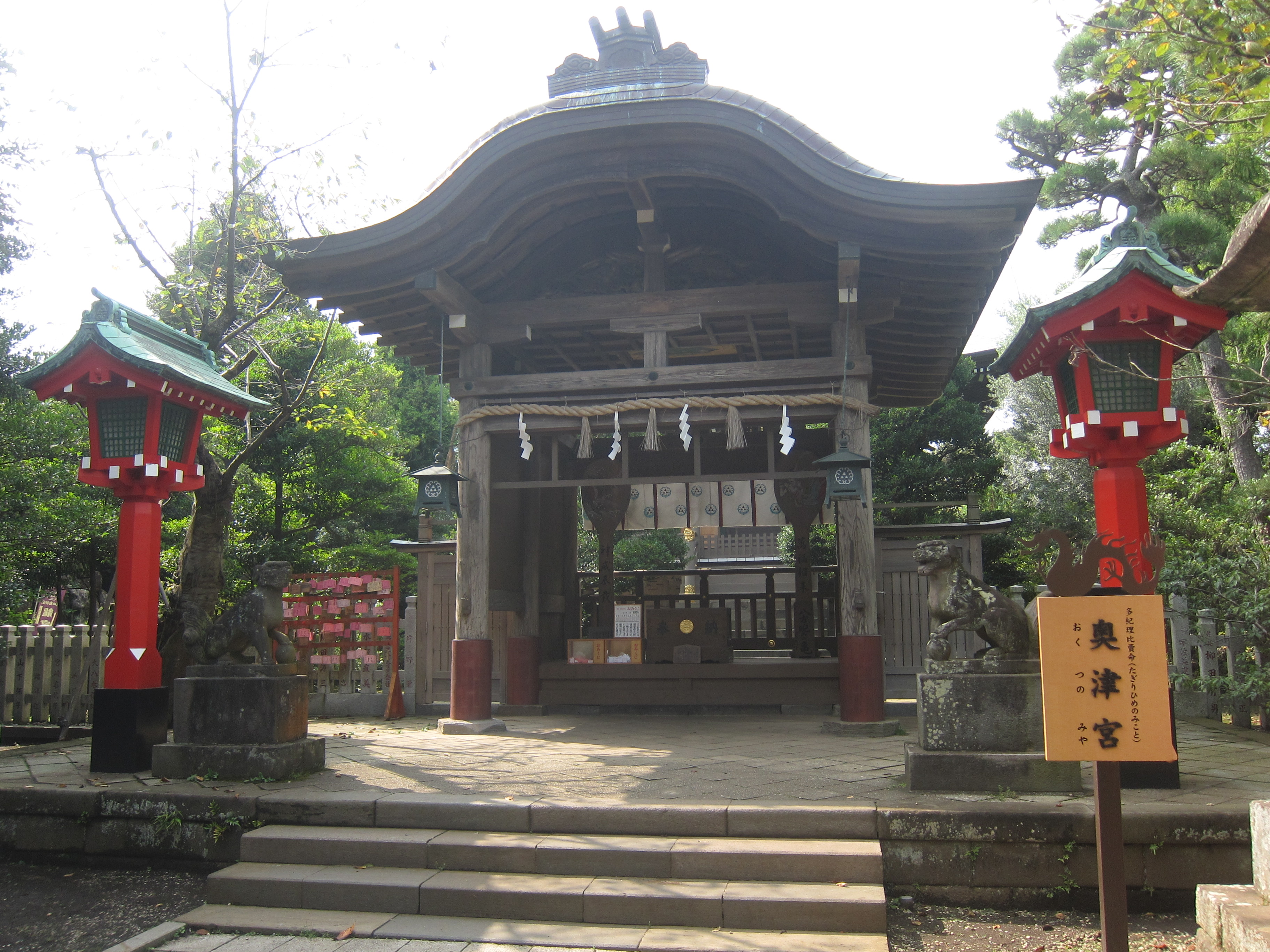 Okutsuno-miya is one of the three shine in Enoshima Jinja